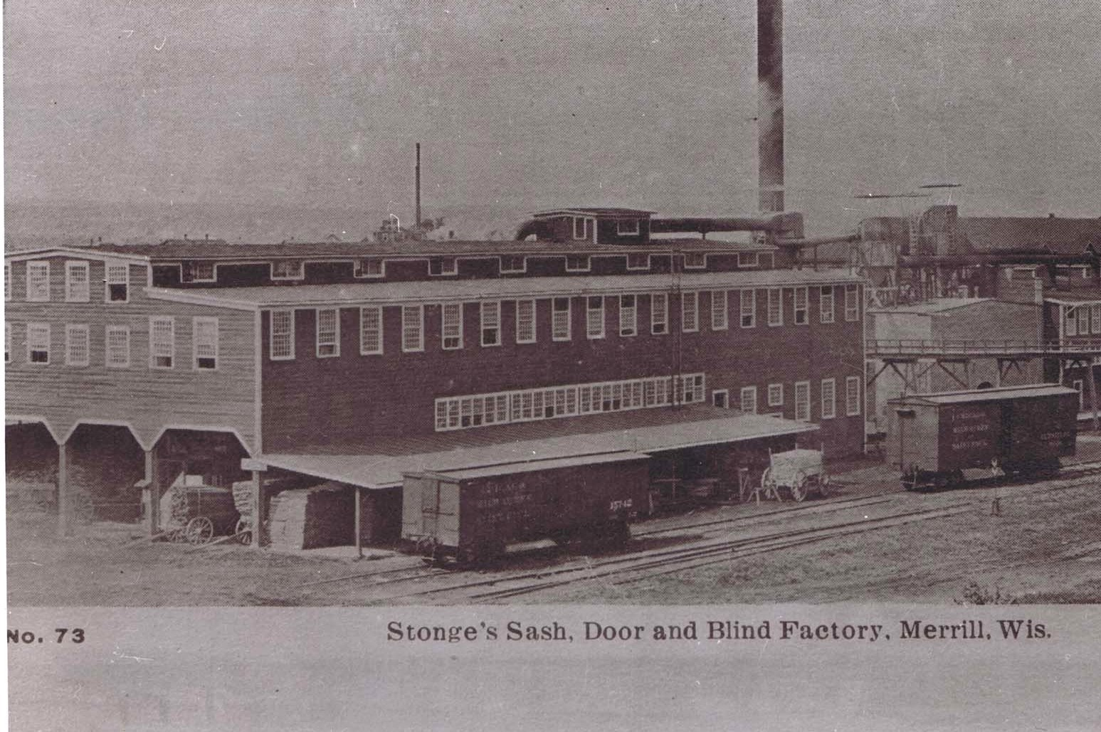 The Stange Sash, Door and Blind Factory in Merrill, Wisconsin, used by permission of T. B. Scott Free Library